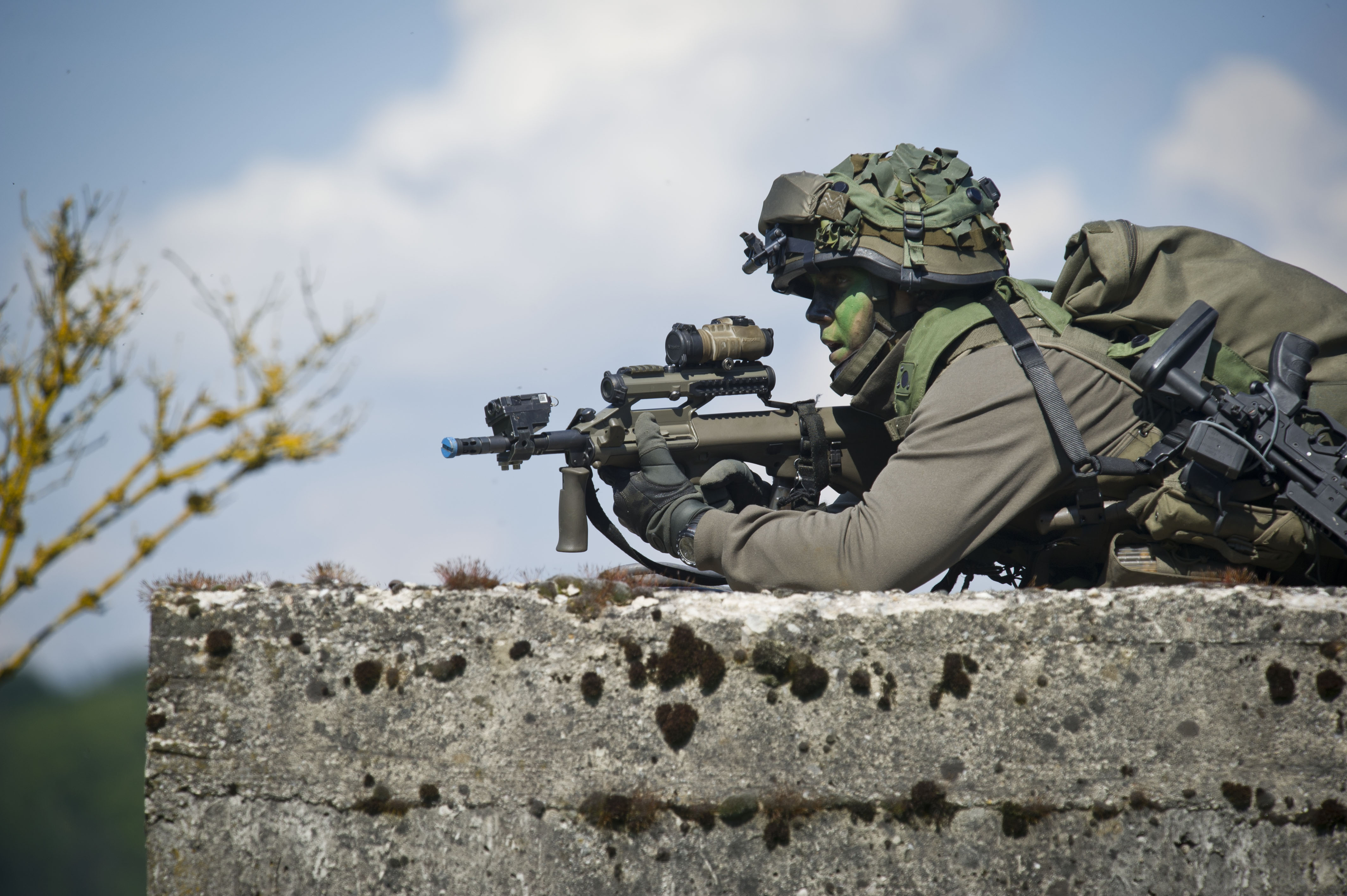 Soldiers from the 1st Austrian Sword COY, 2nd Platoon, operate under the watchful eye of U.S. Army Observer/Coach-Trainers from the Joint Multinational Readiness Center at the Hohenfels Training Area in southeastern Germany, May 19, 2014. The soldiers are participating in Combined Resolve II, a 15-nation ground-forces exercise at the U.S. Army's Grafenwoehr and Hohenfels Training area the includes more than 4,000 participants from NATO and European partner nations, May 15-Jun. 30, 2014 (U.S. Army photo by Staff Sgt. Caleb Barrieau)